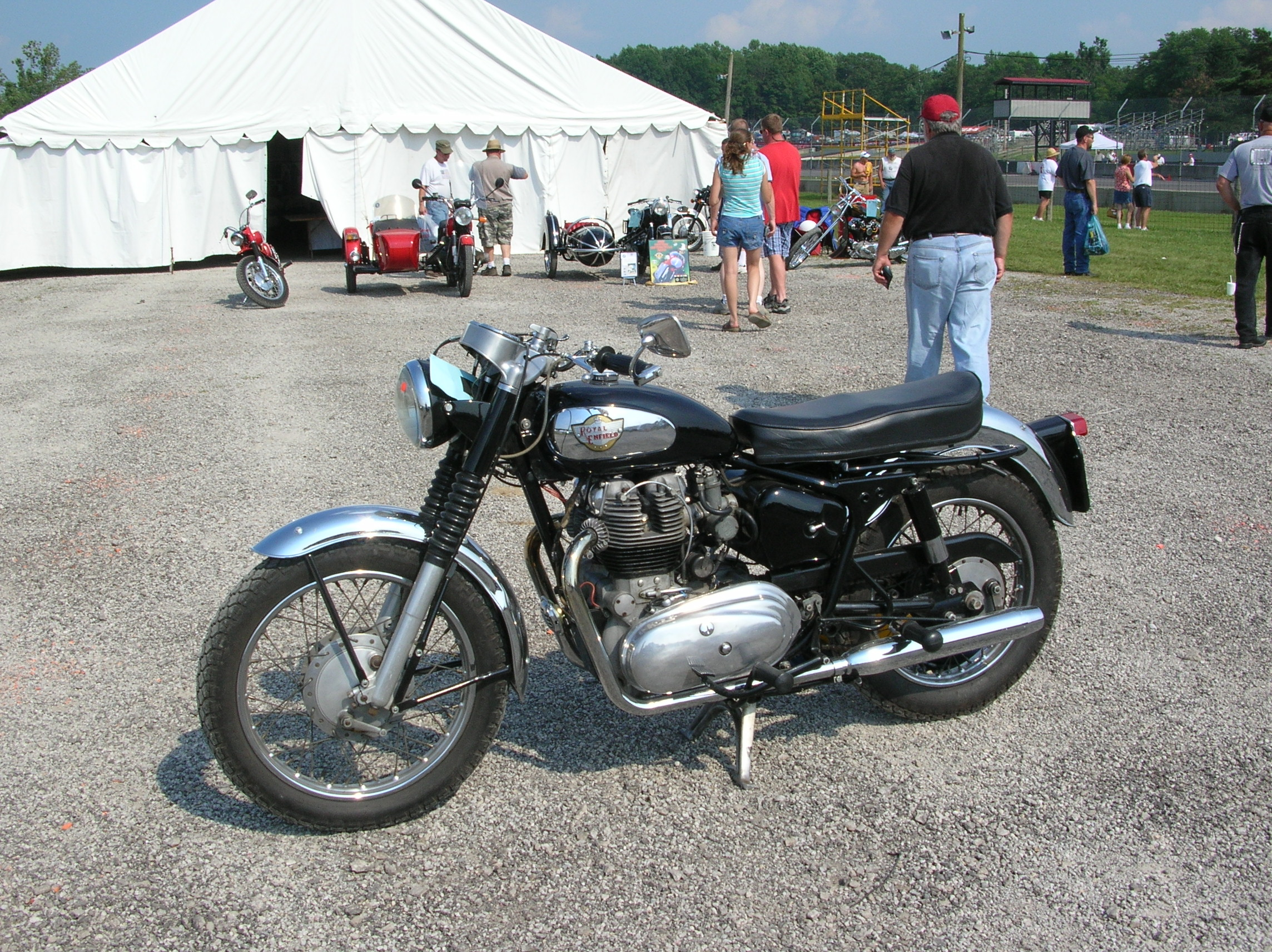 Summary: Royal Enfield Interceptor 750cc twin motorcycle at the July 28, 2006 AMA Vintage Motorcycle Days in Lexington, OH Author: Jamie Aaron, , Not copyrighted, Freely Distributed, Made by my own Digital Camera